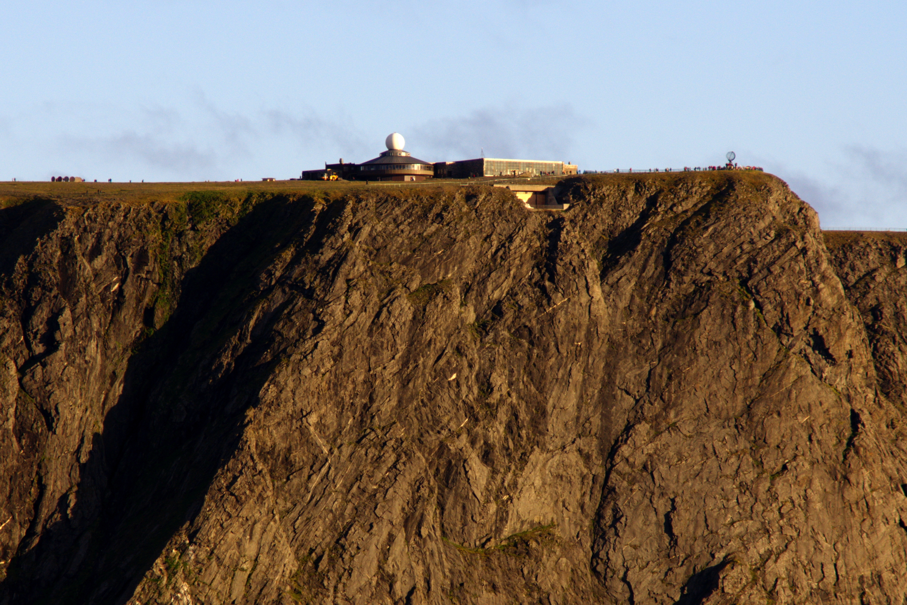 North Cape, Norway, taken in June from seeside (ca. 3 km); direction of sun app. from north